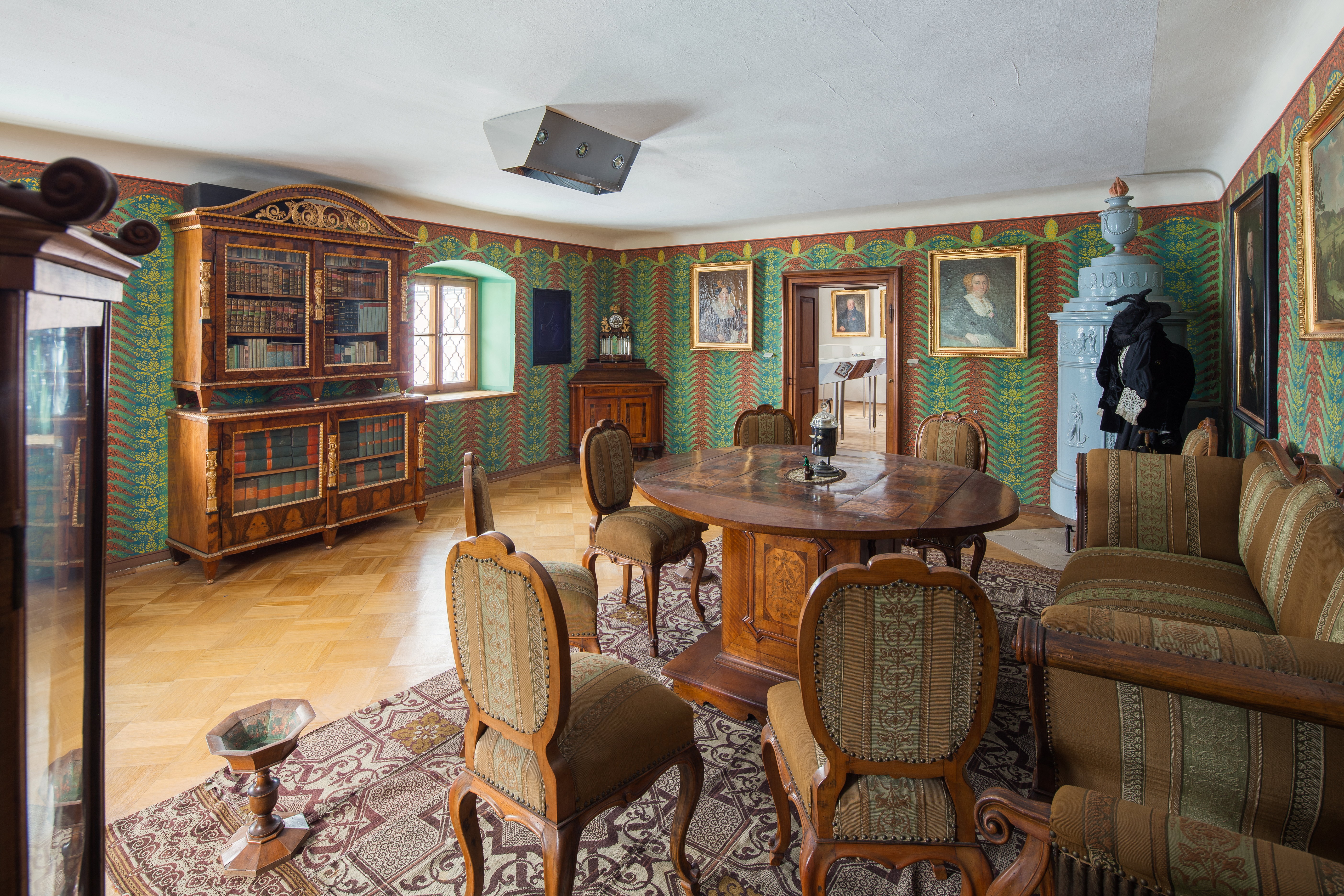 Scythe Forge Museum in Micheldorf, Upper Austria, „Blumauerzimmer“ parlour. The historically authentic interior, including Baroque and Empire style furniture, a sitting room suite with an opulently inlaid table, family portraits by F. X. Bobleter and a Biedermeier era wallpaper was originally part of the so called „Schönes Zimmer“ (literally „fine room“) in the mansion of the nearby Blumau scythe forge.